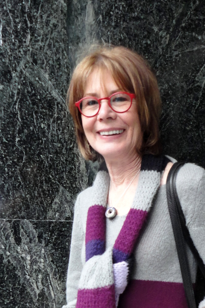 Photo of Suzy Lake taken at the University of Toronto Art Centre.